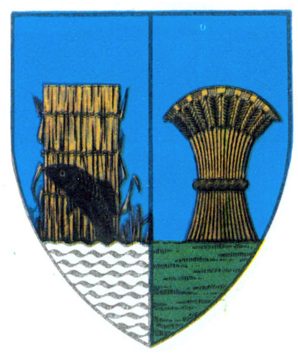 Interwar coat of arms of Ialomița County, Kingdom of Romania.